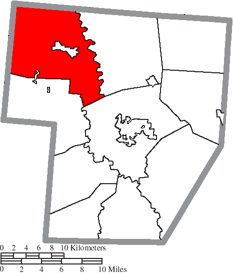 Map of the municipal and township boundaries of Fayette County, Ohio, United States, as of the 2000 census, with the location of Jefferson Township highlighted. Township borders are shown only in unincorporated areas in order to differentiate incorporated and unincorporated areas more clearly.